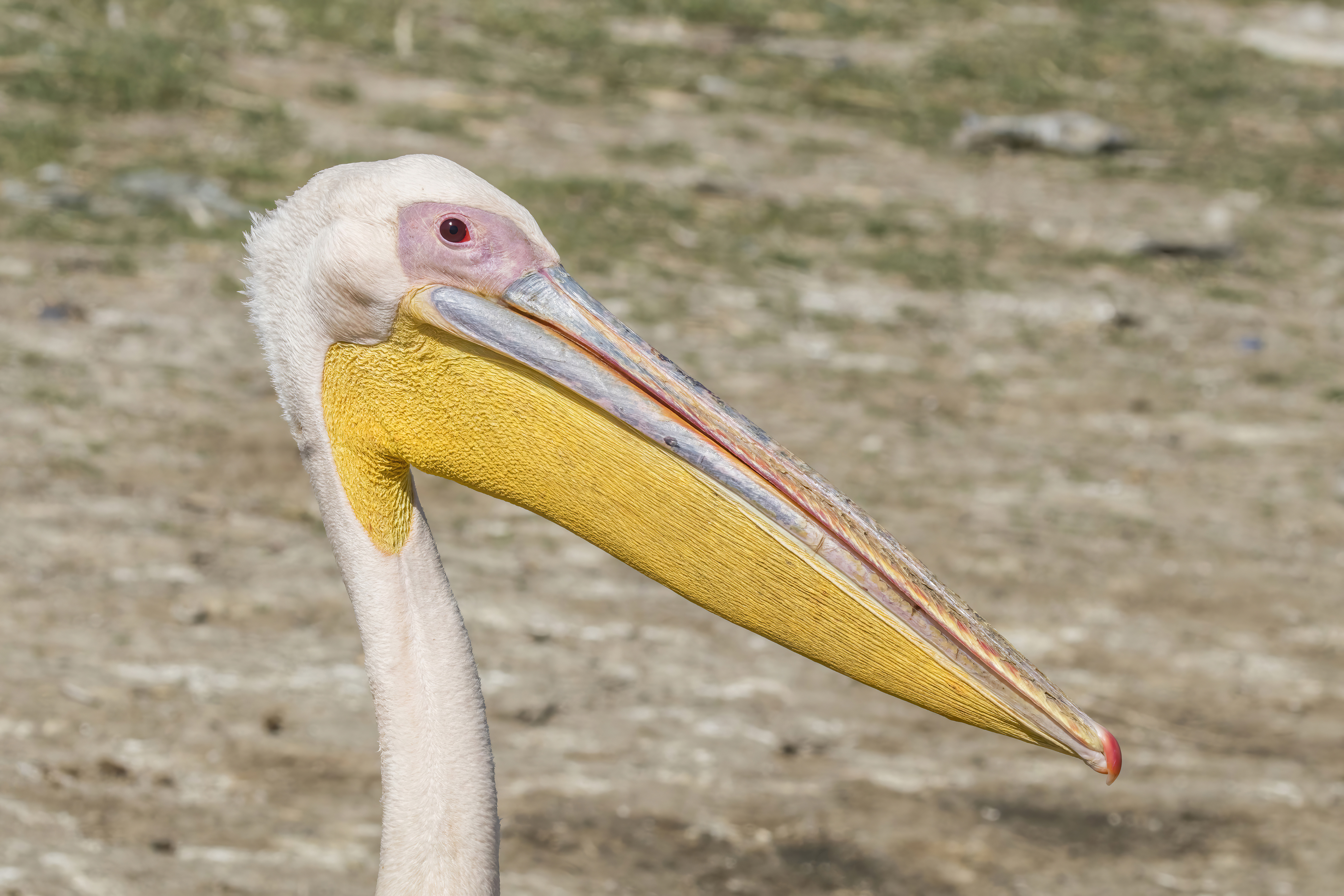 Great white pelican (Pelecanus onocrotalus), Lake Ziway, Ethiopia